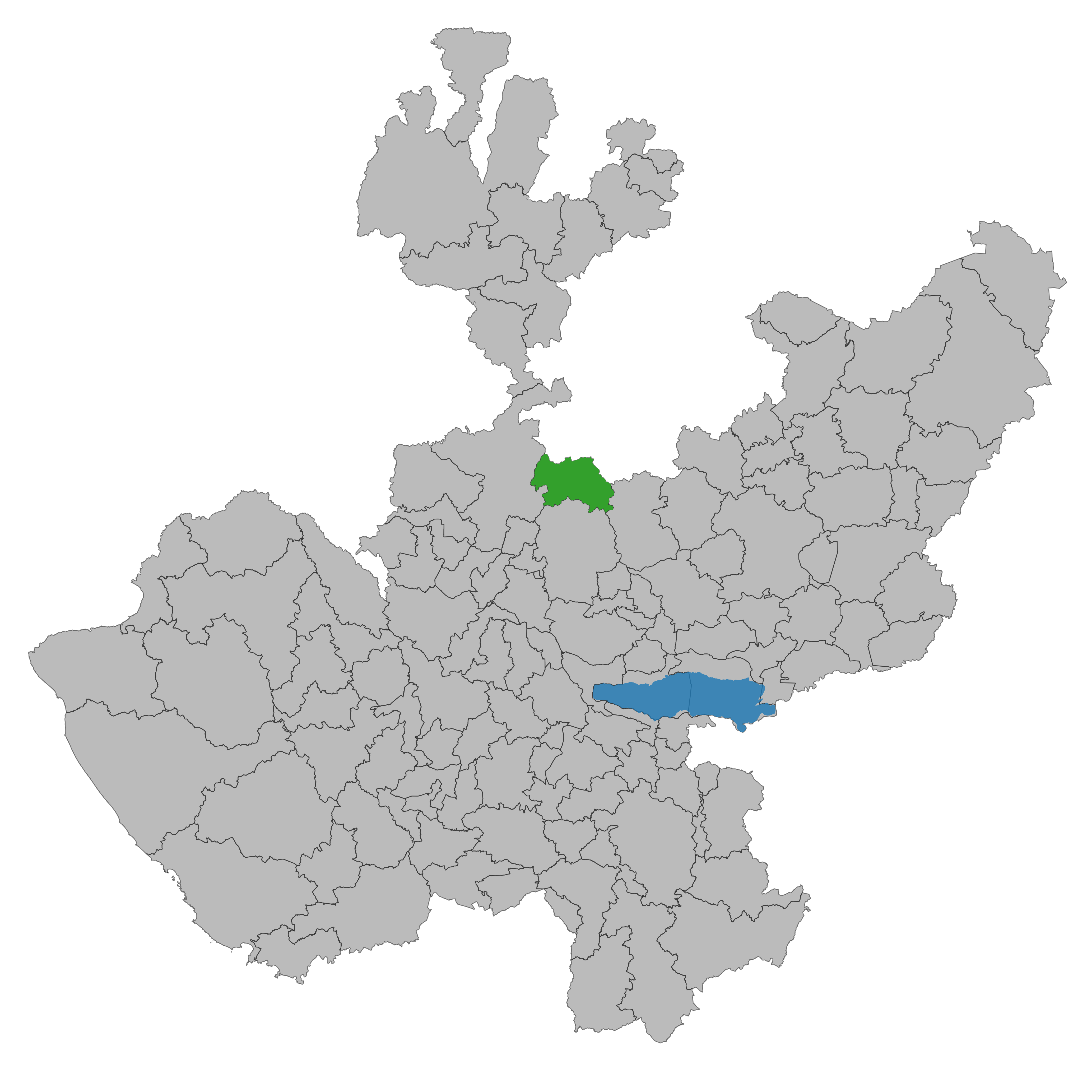 Municipality of Jalisco. Prepared with the software QGIS version 2.8.2 Wien & with information of SCINCE 2010 version 05/2013